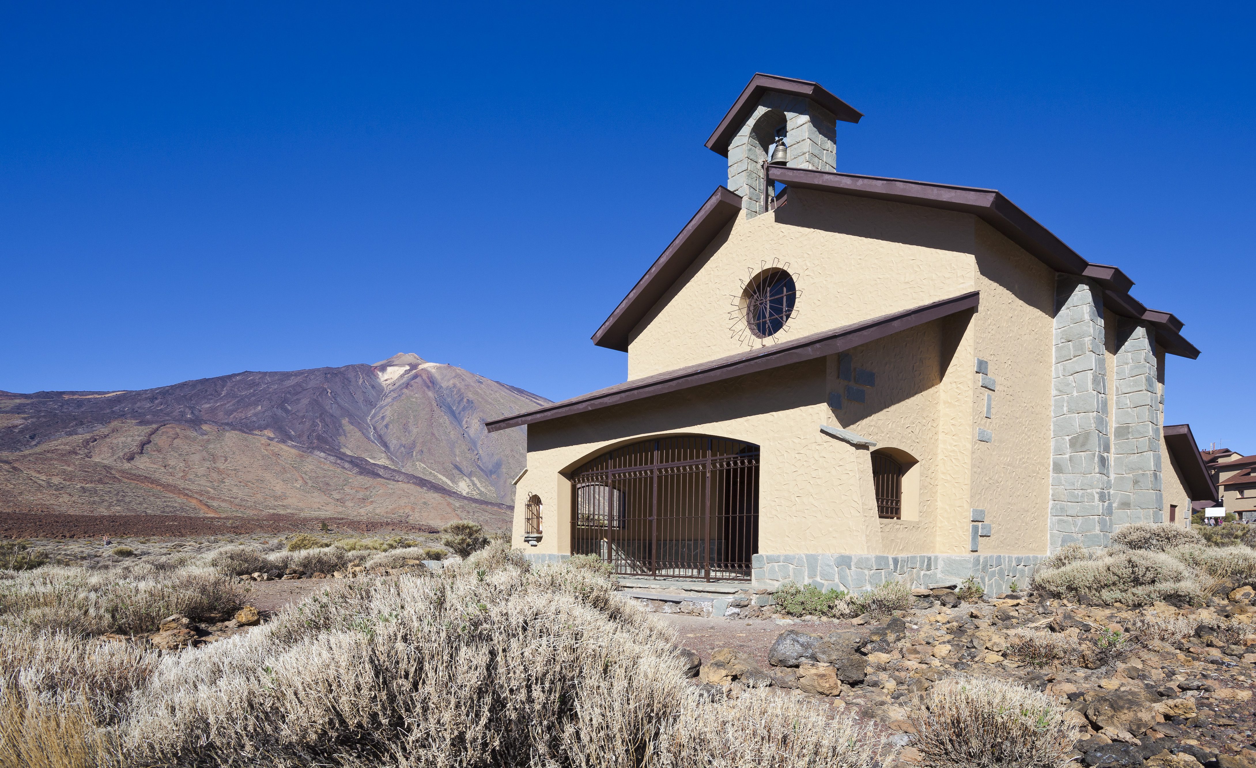 Hermitage of Our Lady of the Snows, National Park of Teide, Santa Cruz de Tenerife, Spain